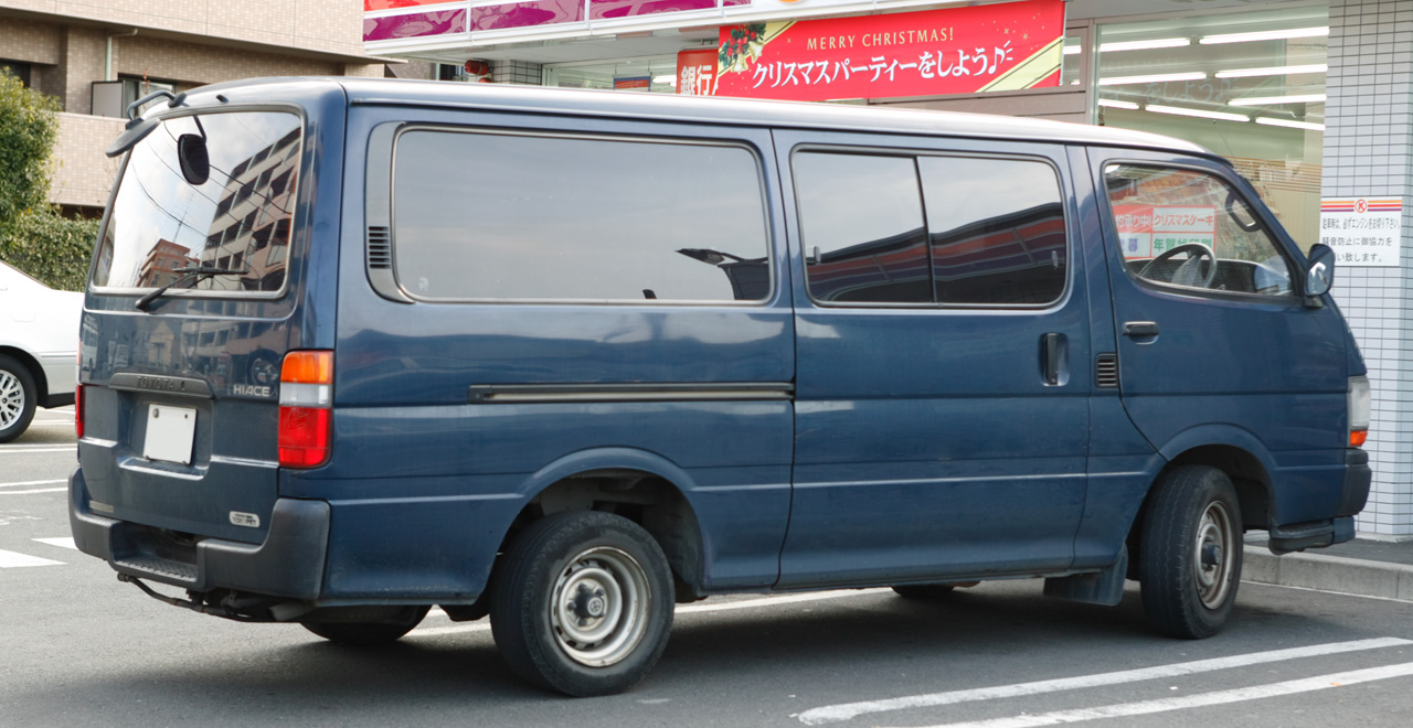 Toyota Hiace 100 long van Just Low 2.0 DX